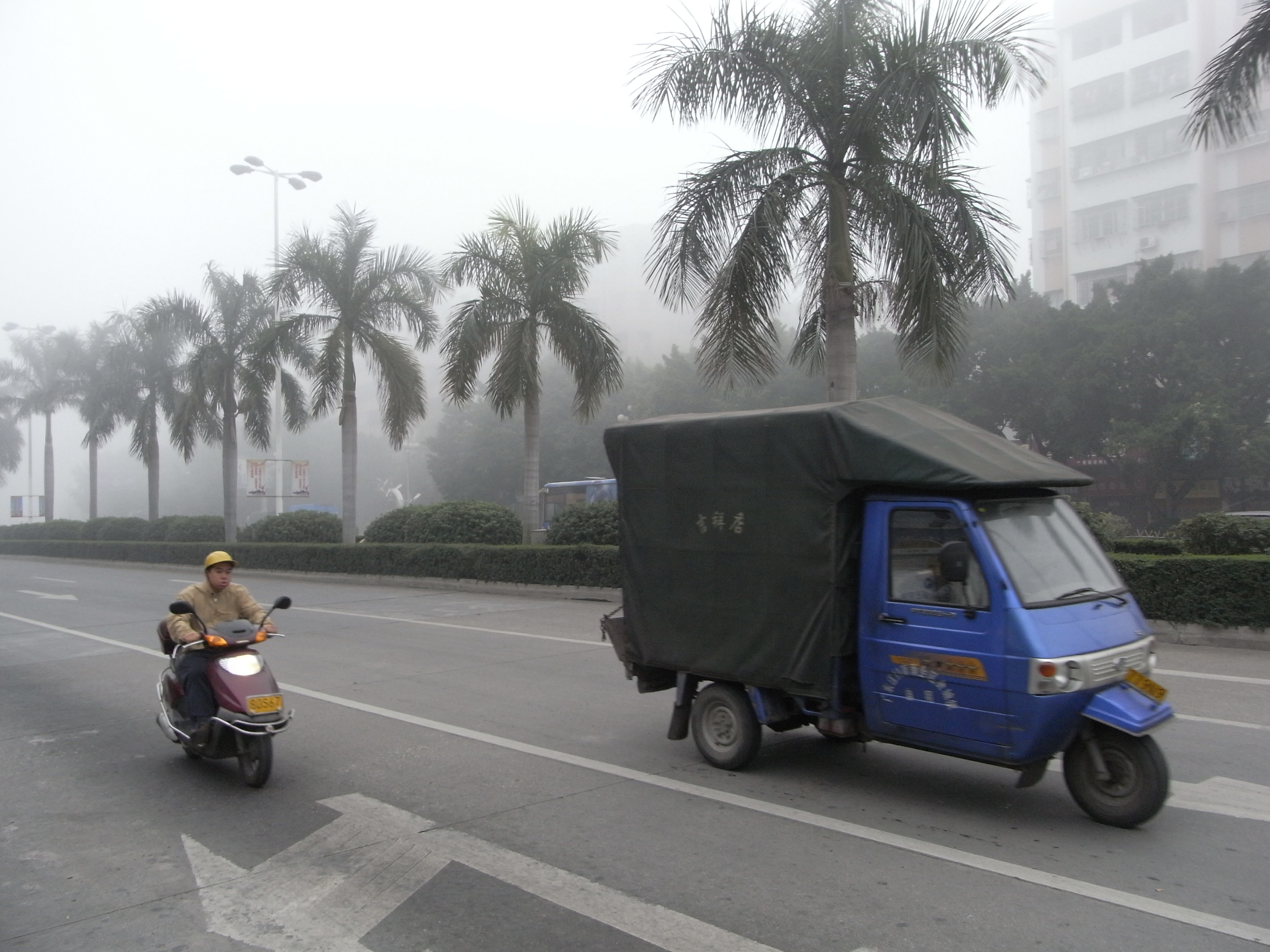 新會會城 早晨的zh:霧 岡州大道中